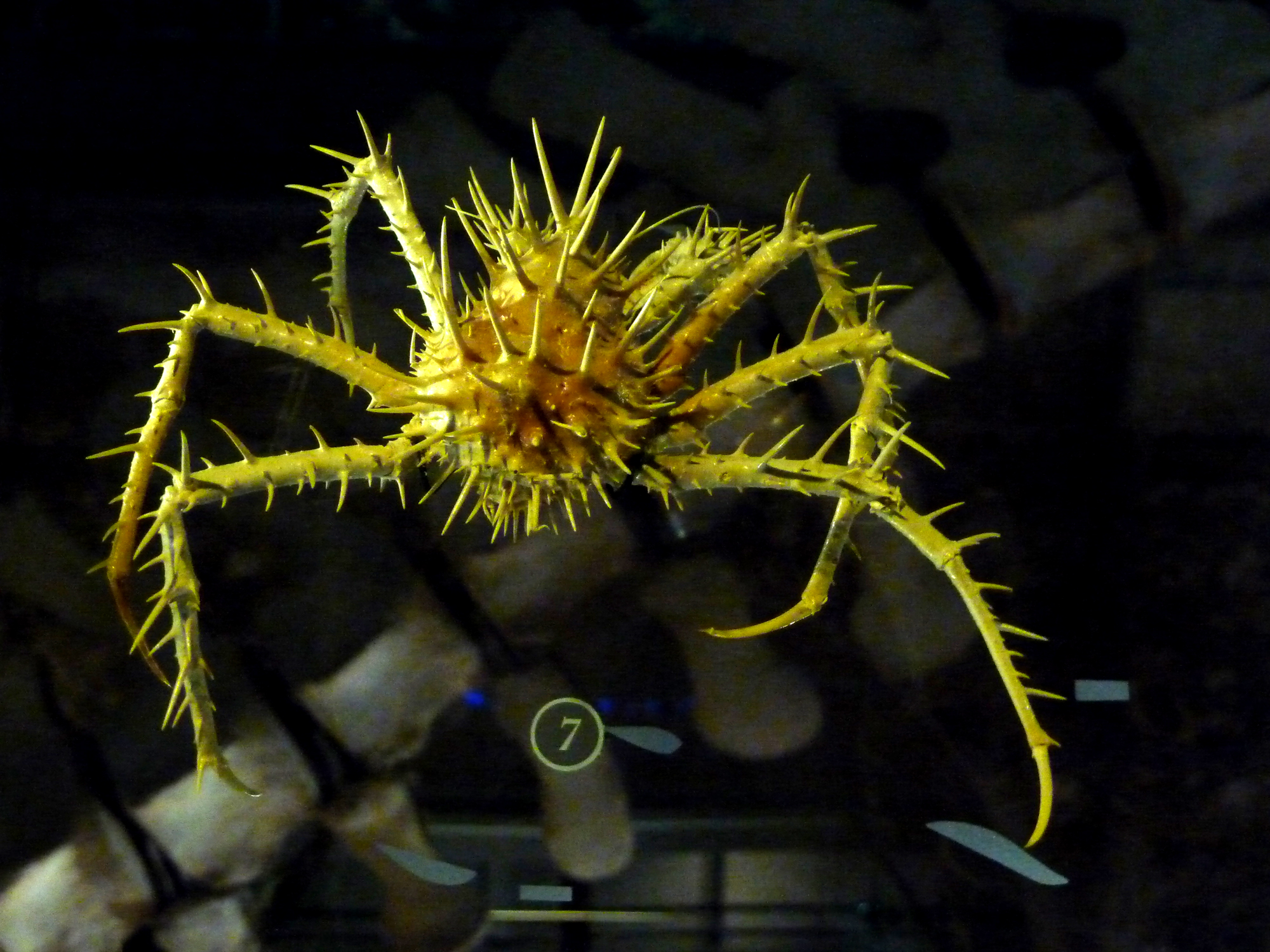 Lithodes grimaldi